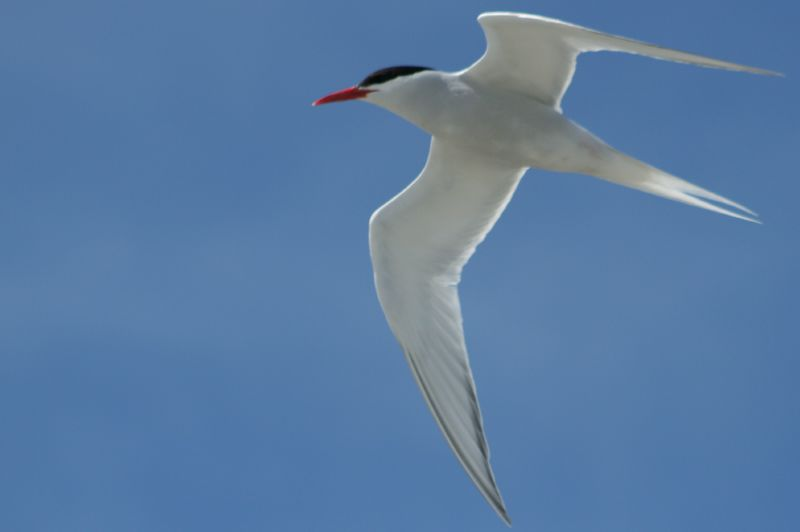 South American Tern Sterna hirundinacea, Falklands